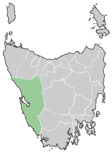 Map of Tasmanian LGA's feat West Coast